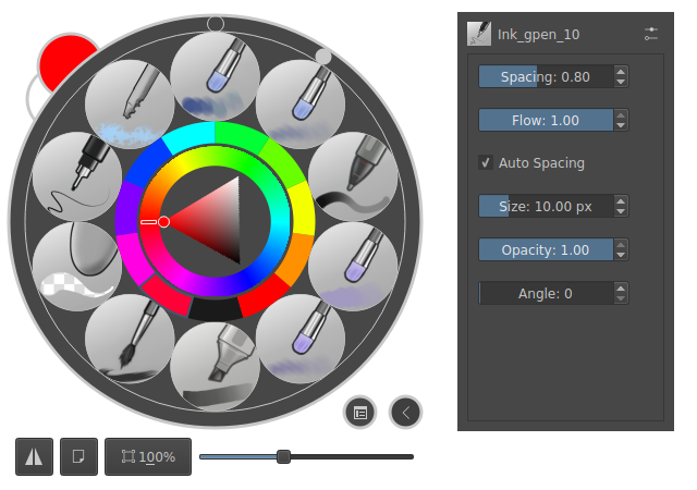 Krita 4.0's right-click hud popup-palette.